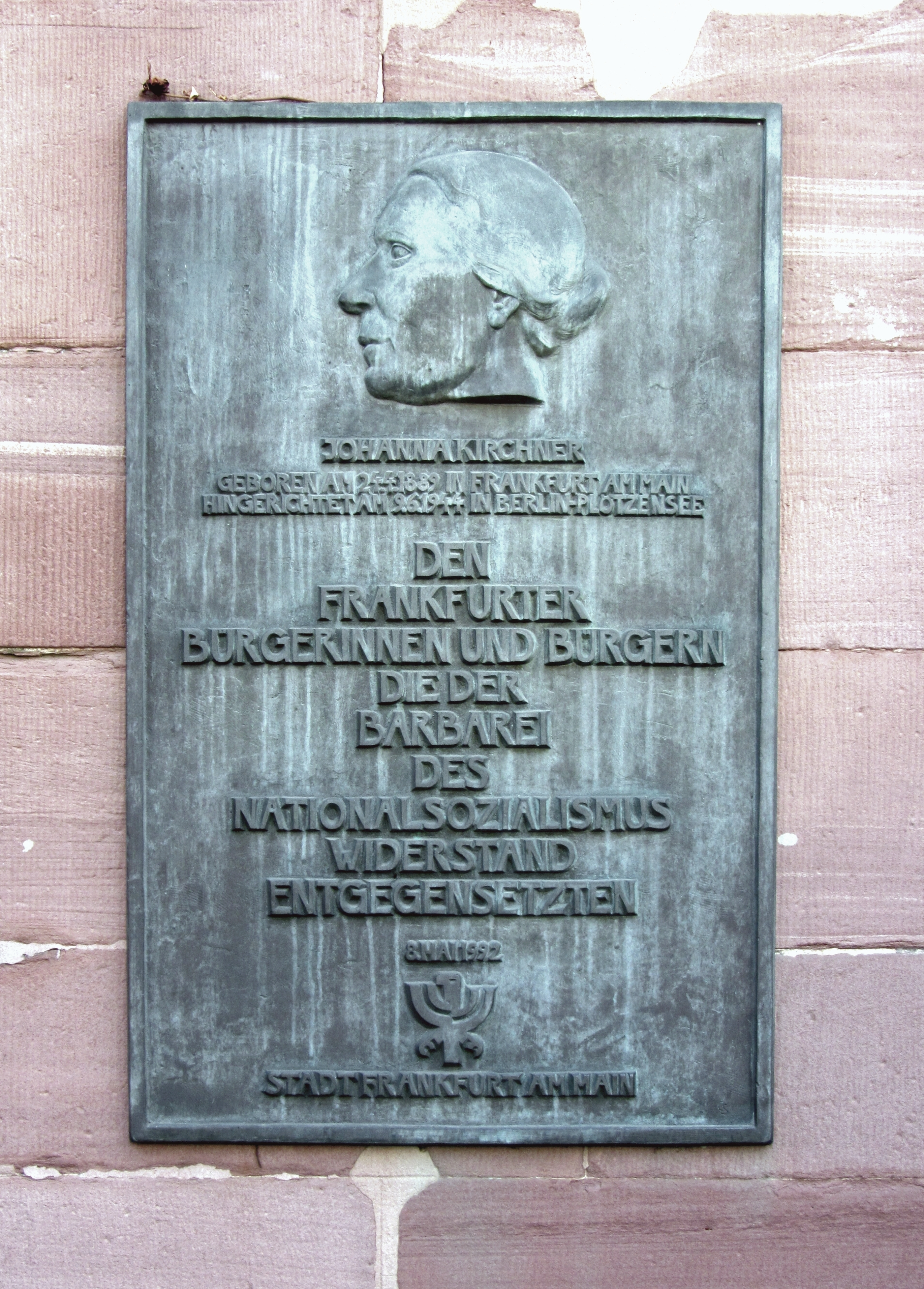 Frankfurt/M., Germany: Plaque commemorating Johanna Kirchner at St. Paul’s church